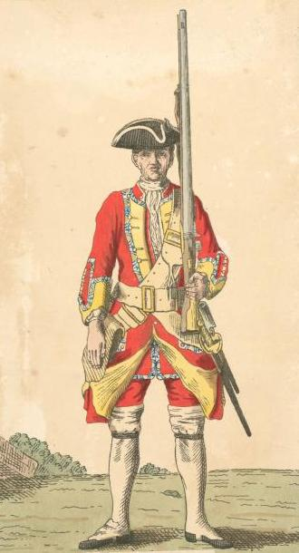 Soldier of the 34th regiment (1742)